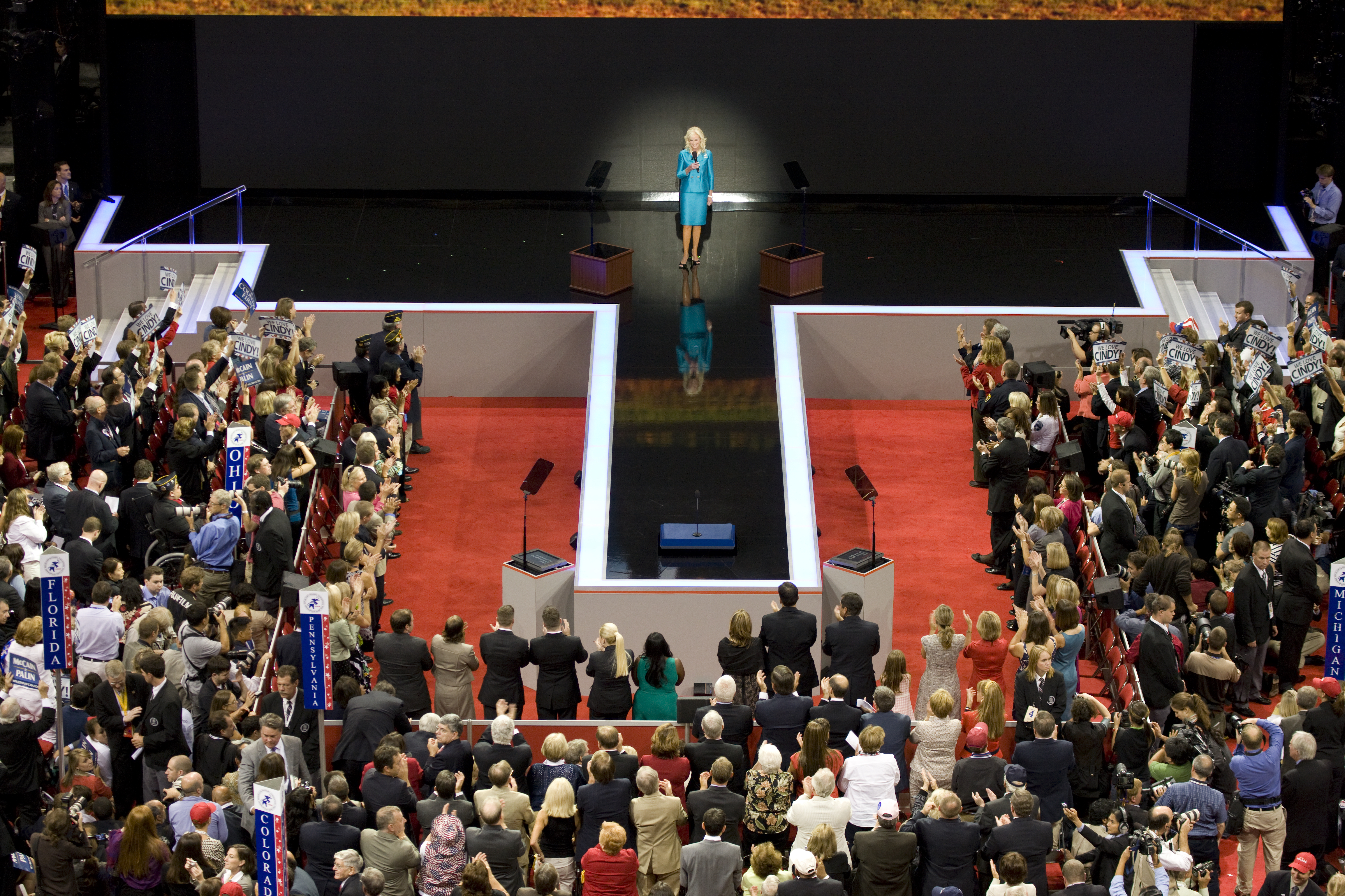 Title: Republican National Convention, September 1-4, 2008. Presidential candidate John McCain's wife Cindy McCain addresses the audience at the convention, St. Paul, Minnesota Physical description: 1 photograph : digital, TIFF file, color. Notes: Credit line: Photographs in the Carol M. Highsmith Archive, Library of Congress, Prints and Photographs Division.; Forms part of the Carol M. Highsmith Archive.; Gift; Carol M. Highsmith; 2009; (DLC/PP-2009:083).; Title and date provided by the photographer.